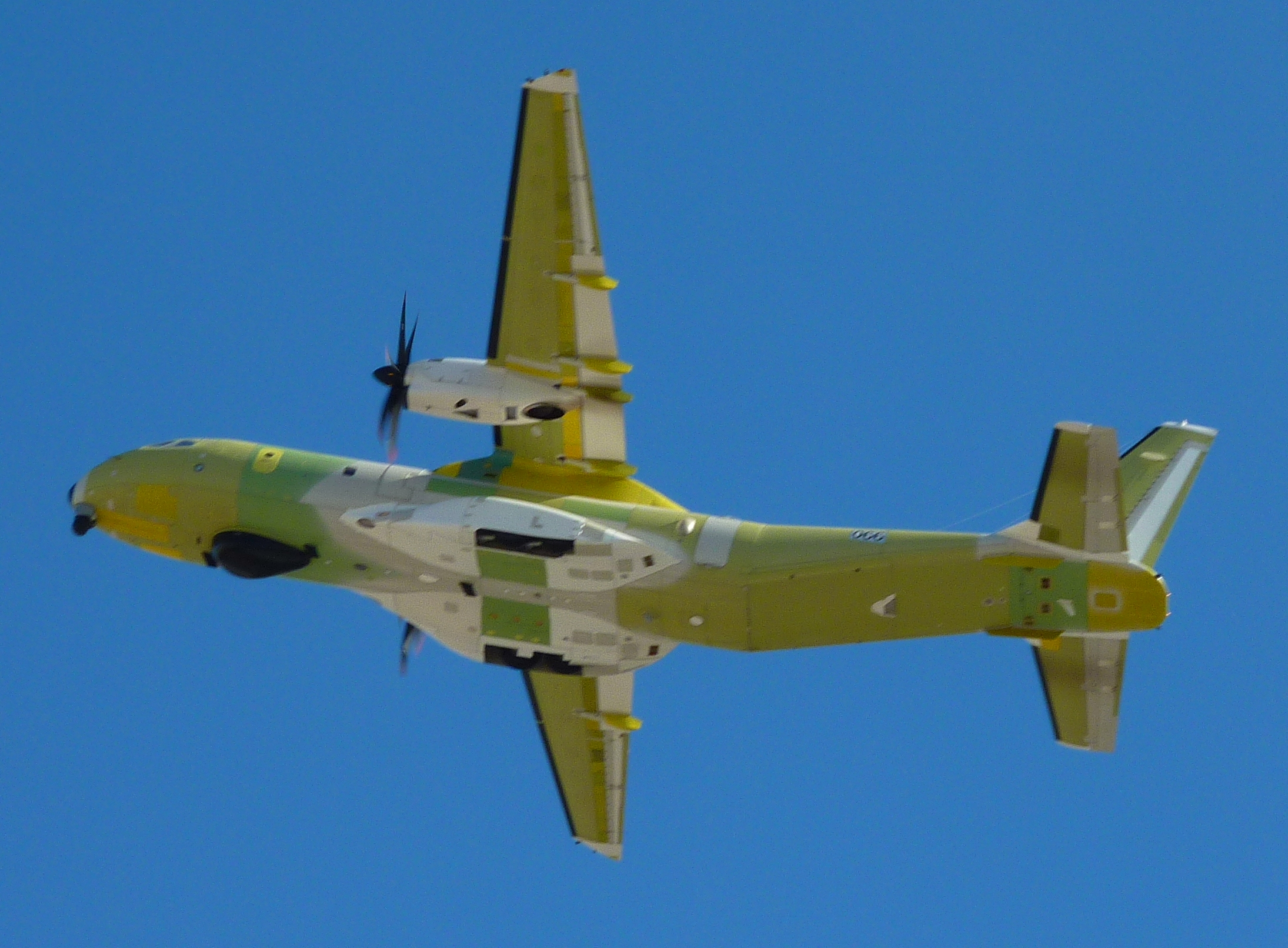 Chilean Navy CASA C-295 Persuader in primer during a test flight.